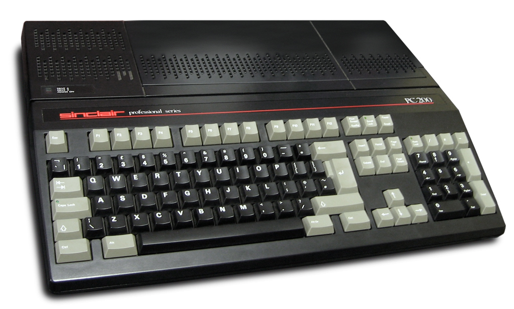 Sinclair PC 200 IBM-compatible Personal Computer (on a white background.) This was manufactured by Amstrad after they acquired the rights to the "Sinclair" brand. (This image has been heavily Photoshopped).